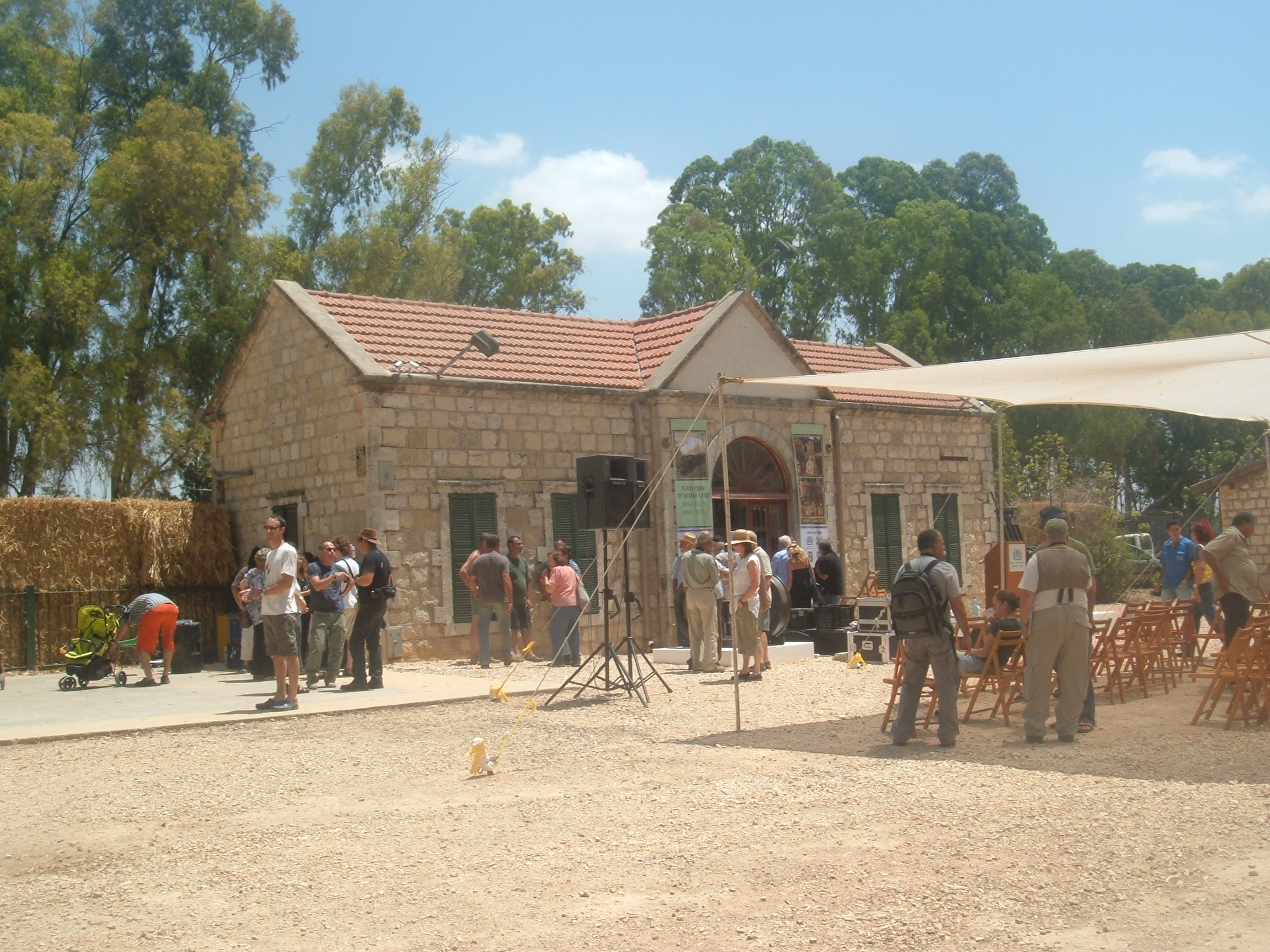 railwaymuseum in Kfar Yehoshua, Israel מוזיאון הרכבת בכפר יהושוע, צולם ביום פתיחת המוזיאון החגיגית